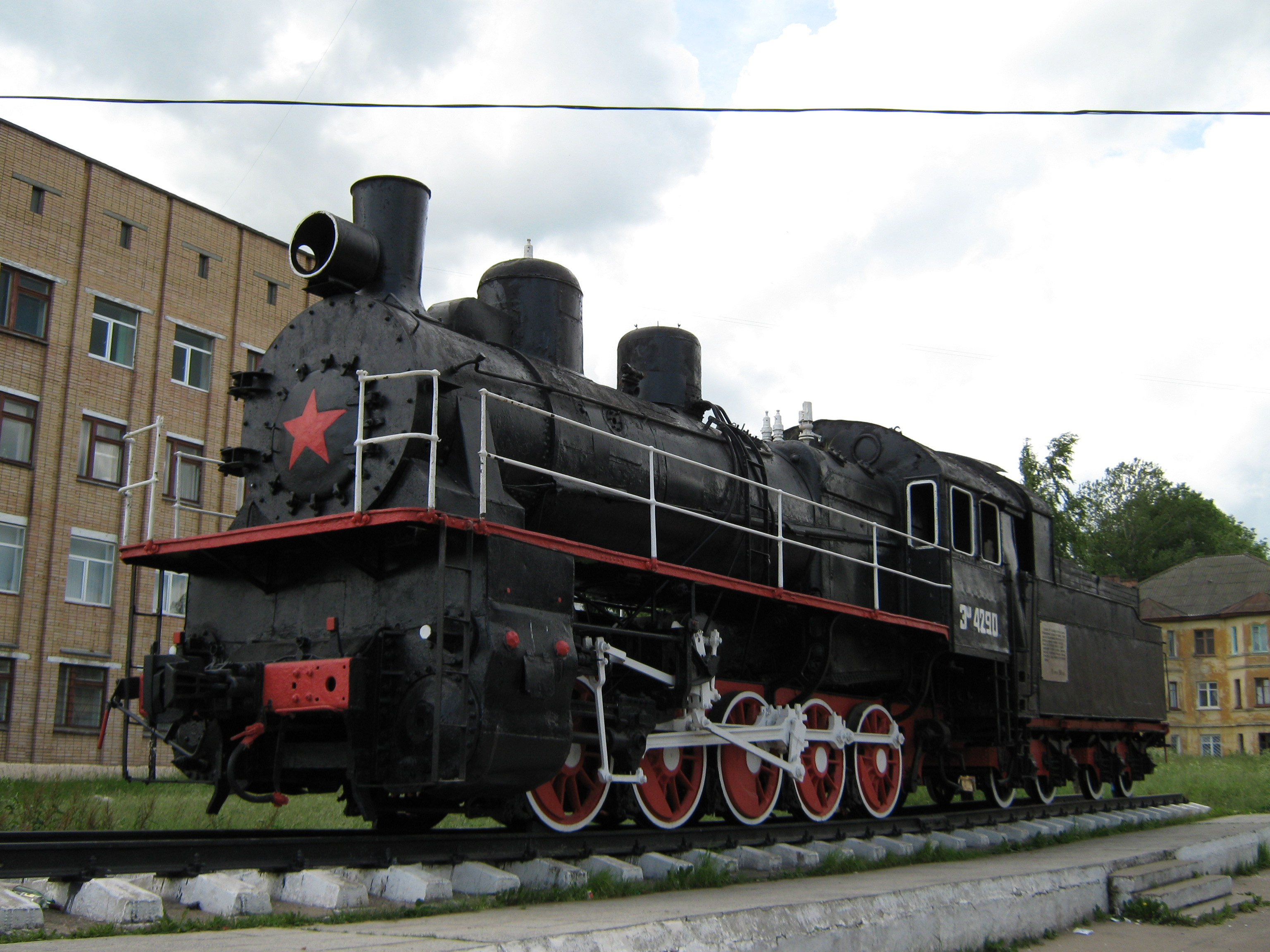 Steam Locomotive Esh 4290 Vyazma, Russia